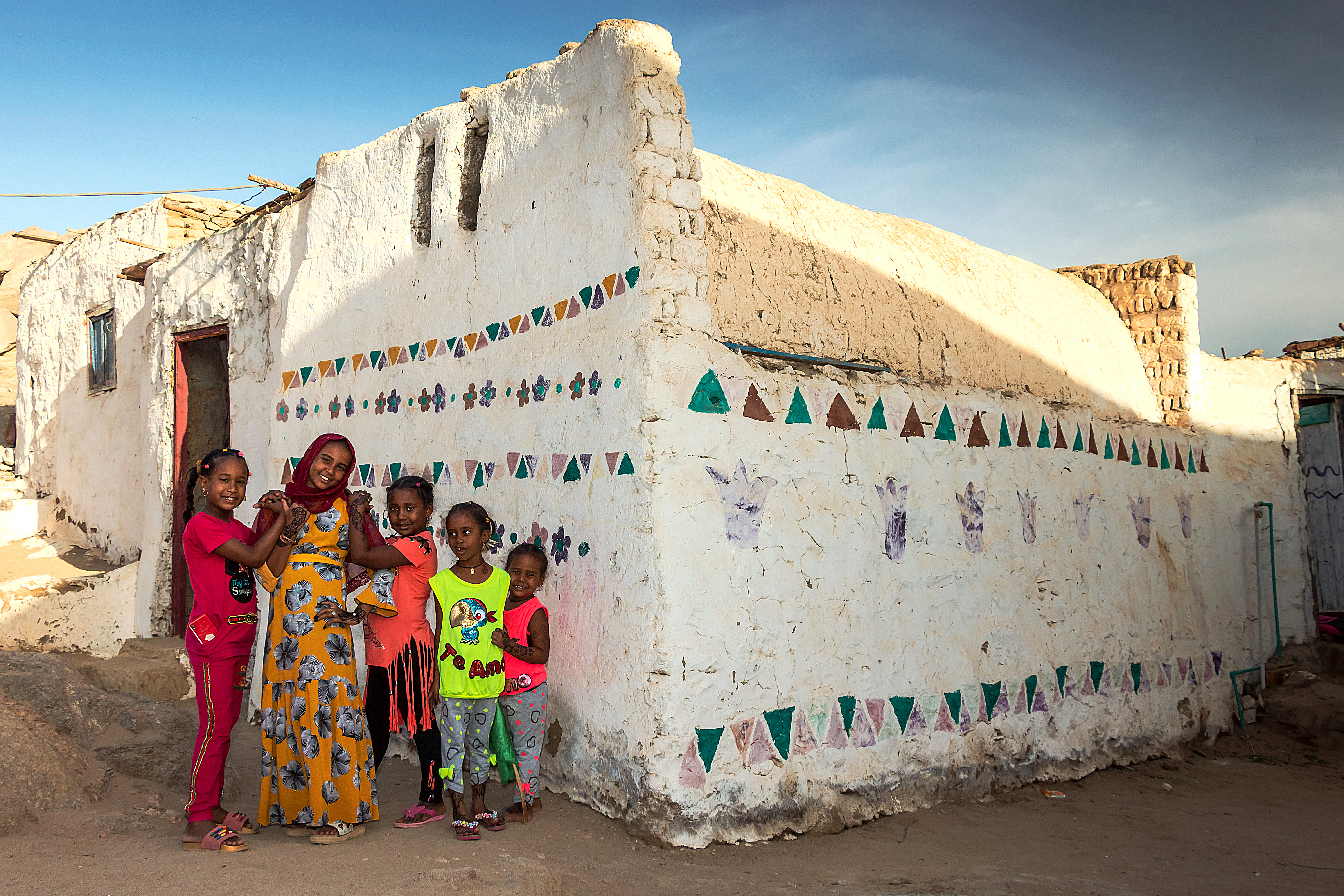 This is an image with the theme "Africa on the Move or Transport" from: Egypt